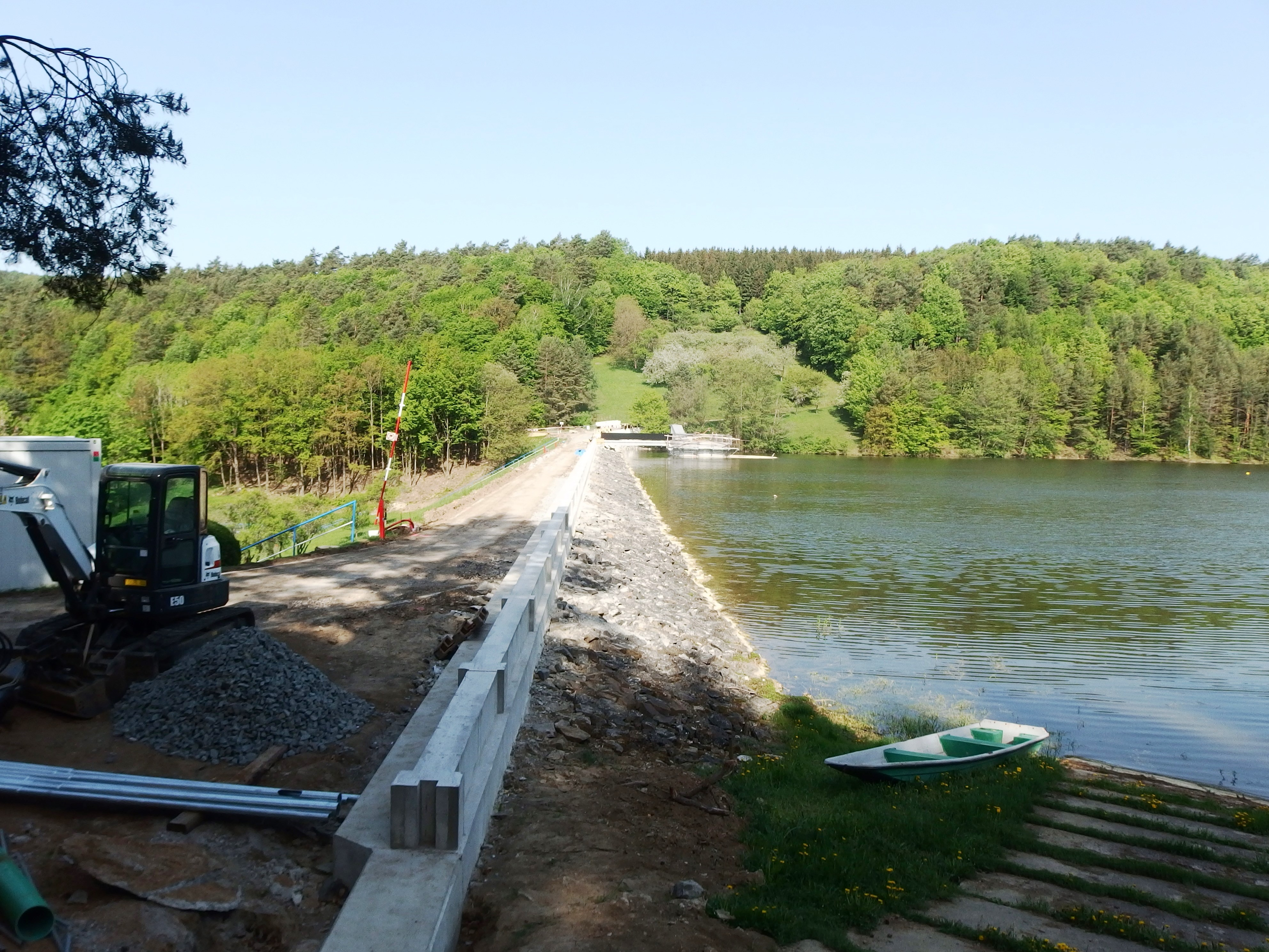 Ludkovice, Zlín District, Czech Republic. Ludkovice Reservoir.